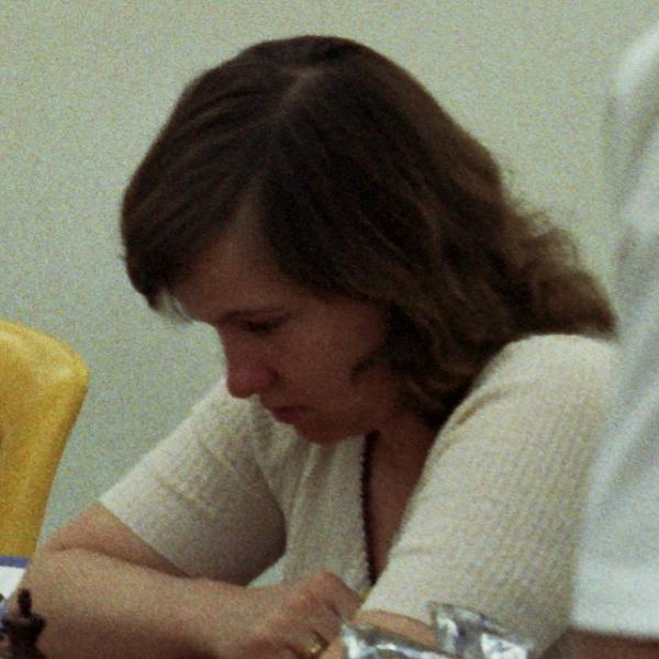 Grazyna Szmacinska, Chess Olympiad 1986 in Dubai, Photographer Gerhard Hund.